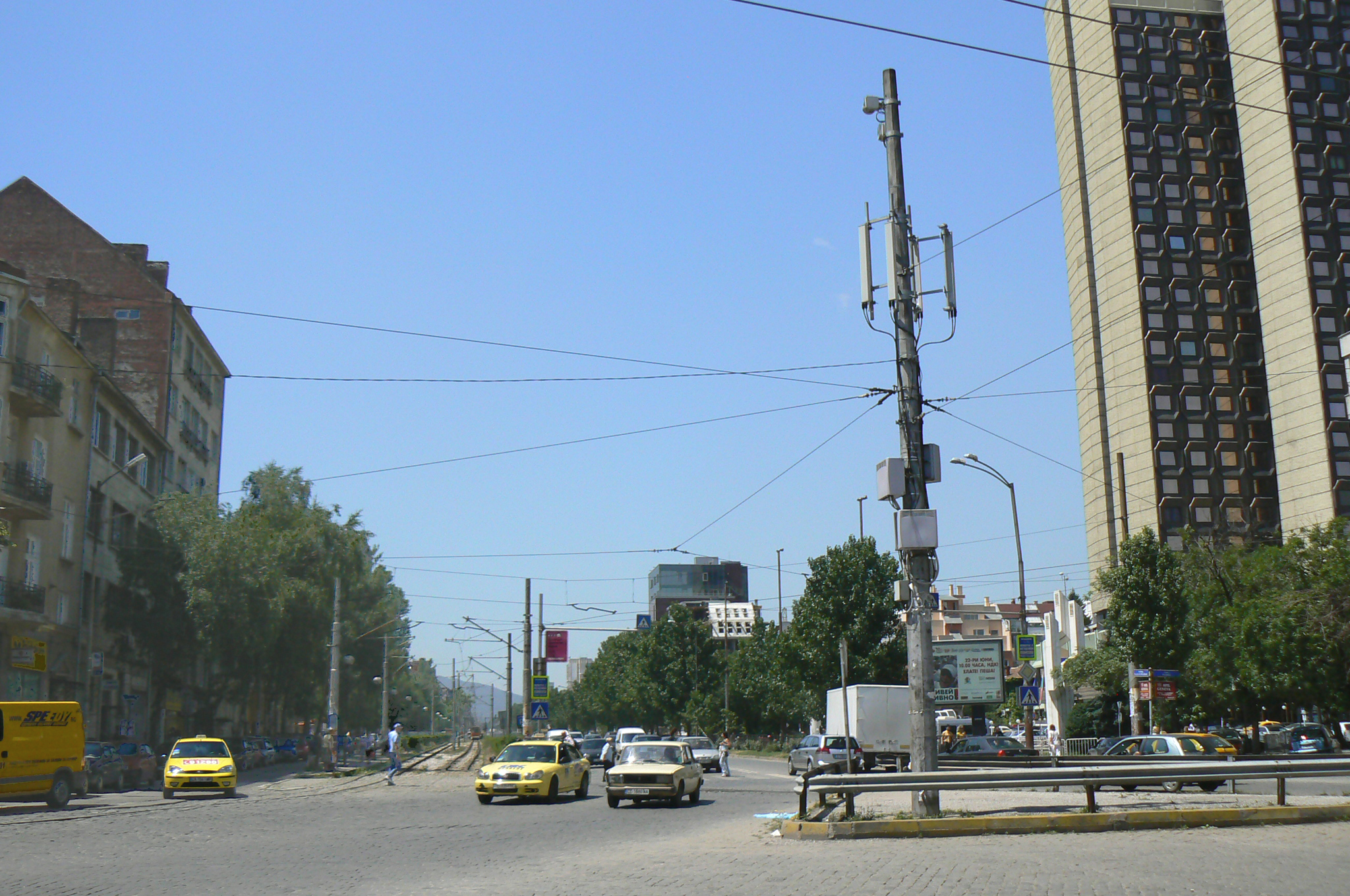 "Eduard Totleben" Blvd in Sofia, Bulgaria. View from the Russian monument to the south